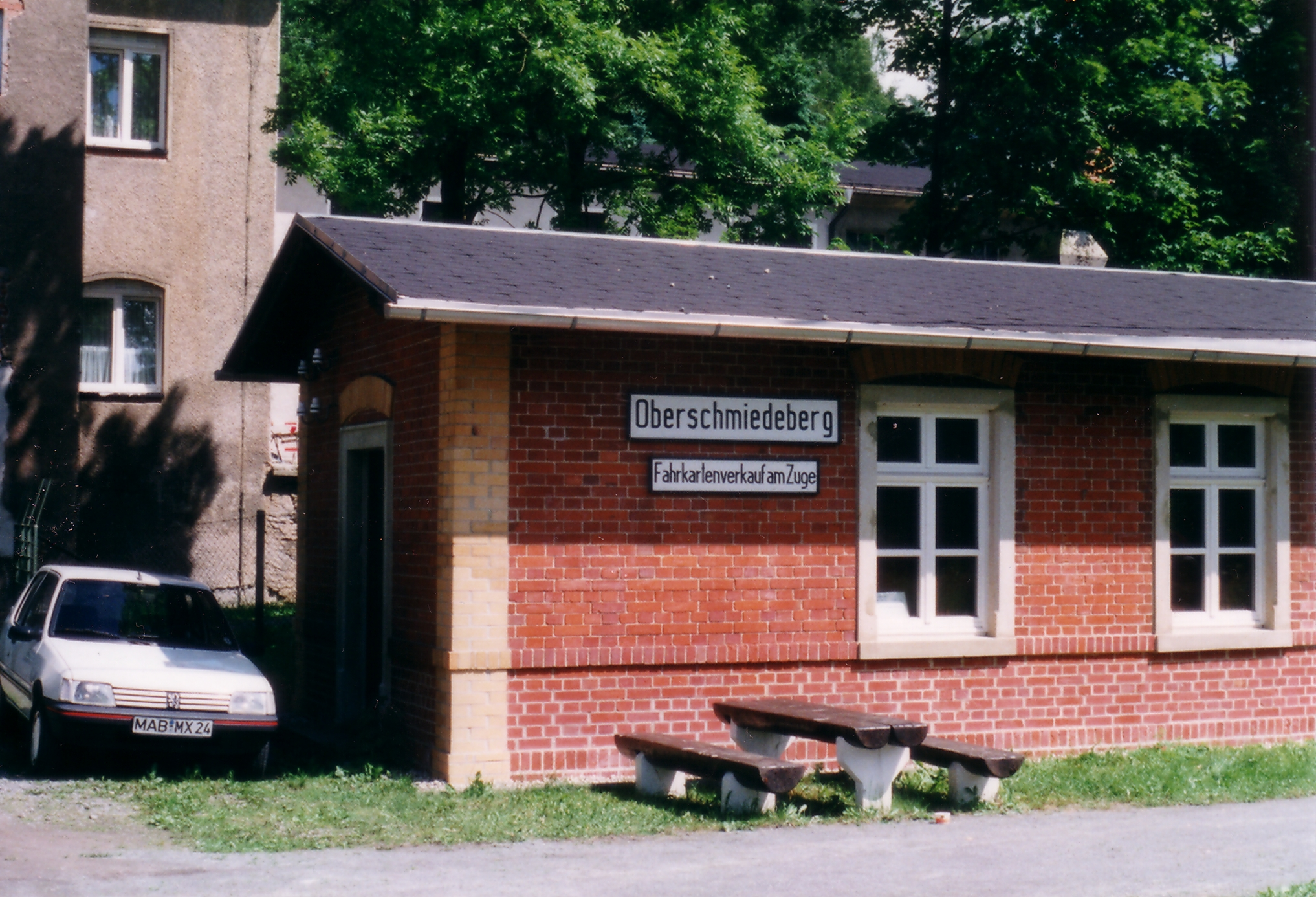 Restored waiting room of the Pressnitz Valley Railway in Oberschmiedeberg, July 2001.